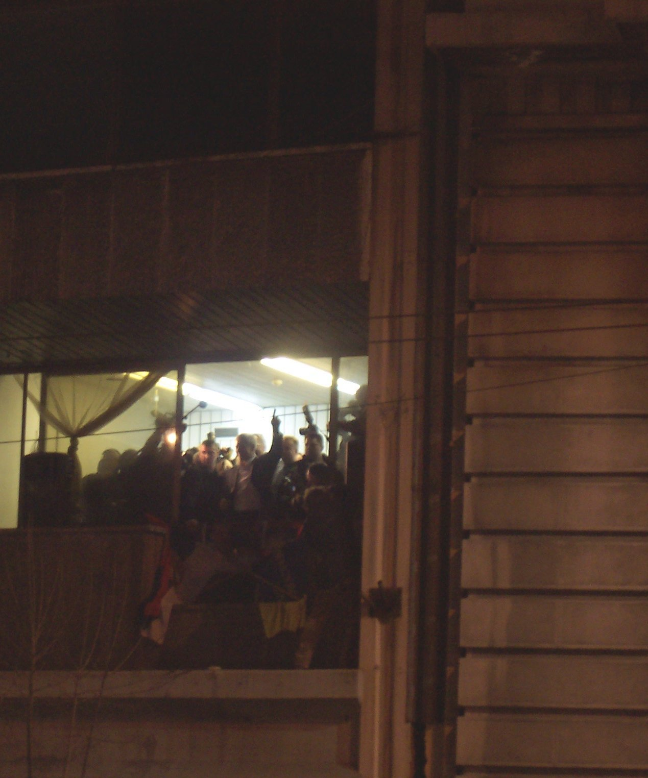 Boris Tadić gives a speech after his victory on the 2008 presidential elections in Serbia.